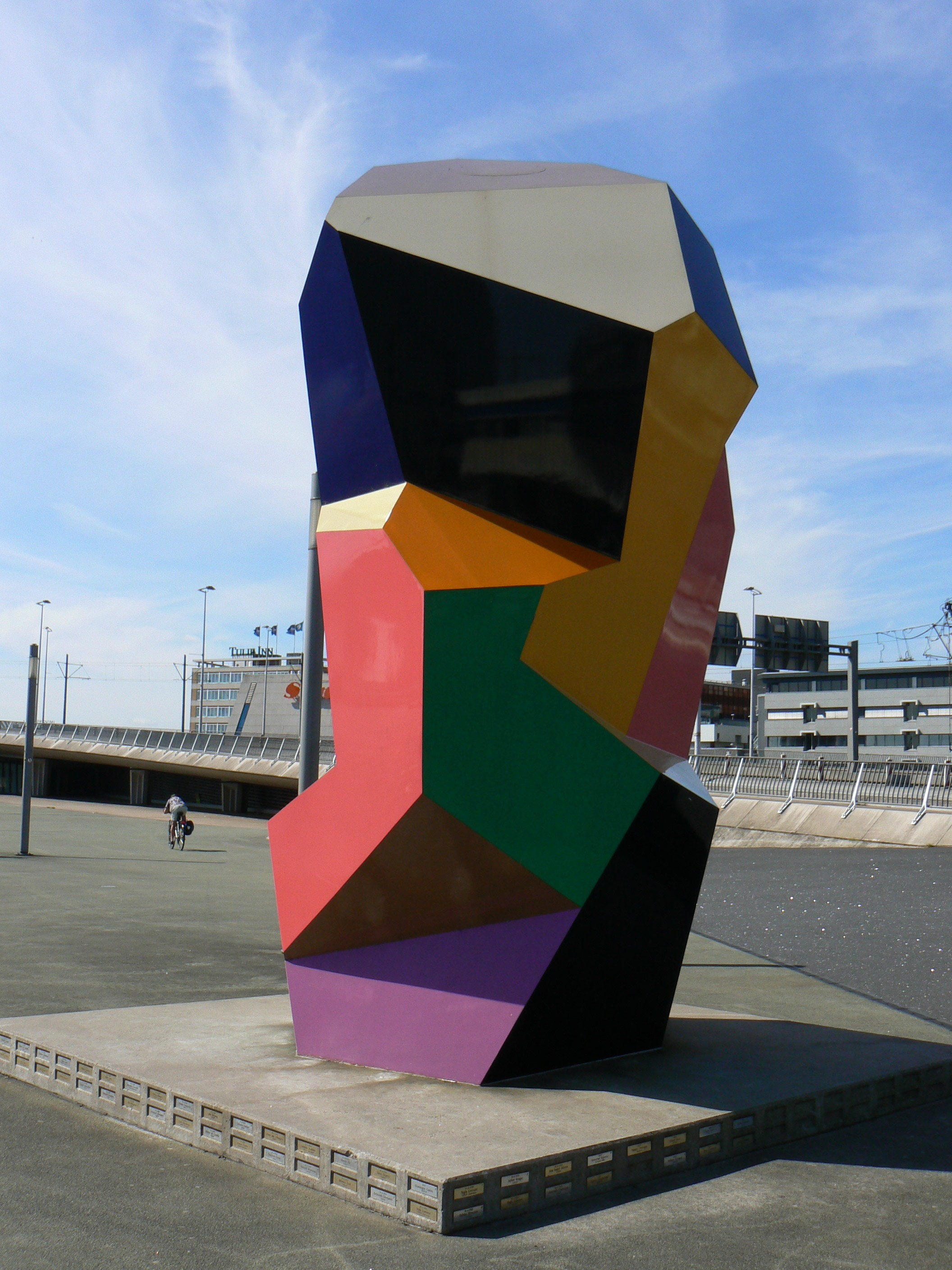 sculpture "Marathon" (2001) by Henk Visch in Rotterdam/The Netherlands